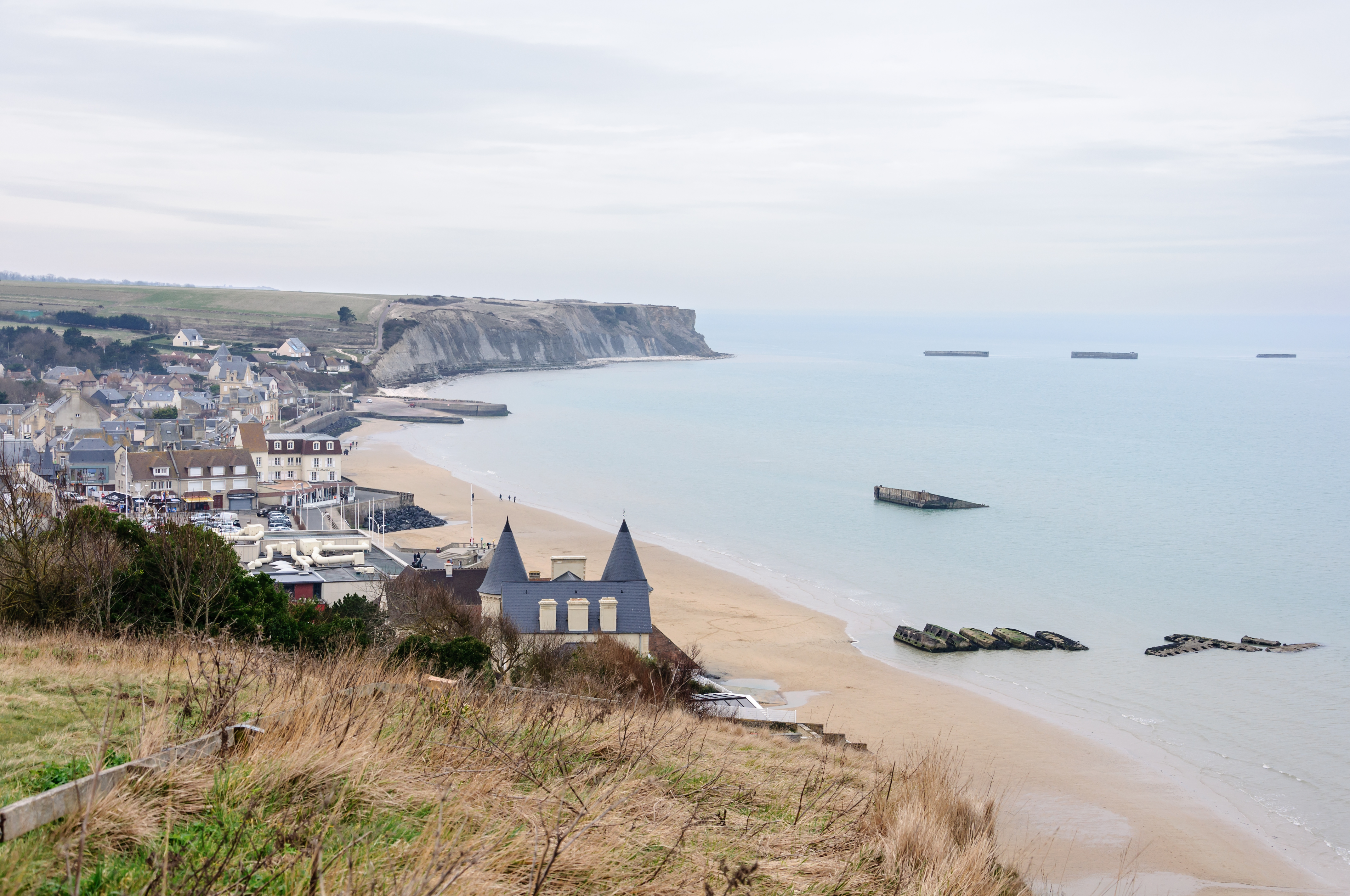 Arromanches-les-Bains, Normandy, France, with the remains of the portable temporary Mulberry harbour in its bay.